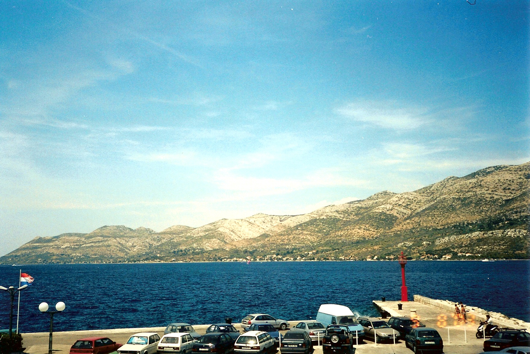 Photograph by the article author